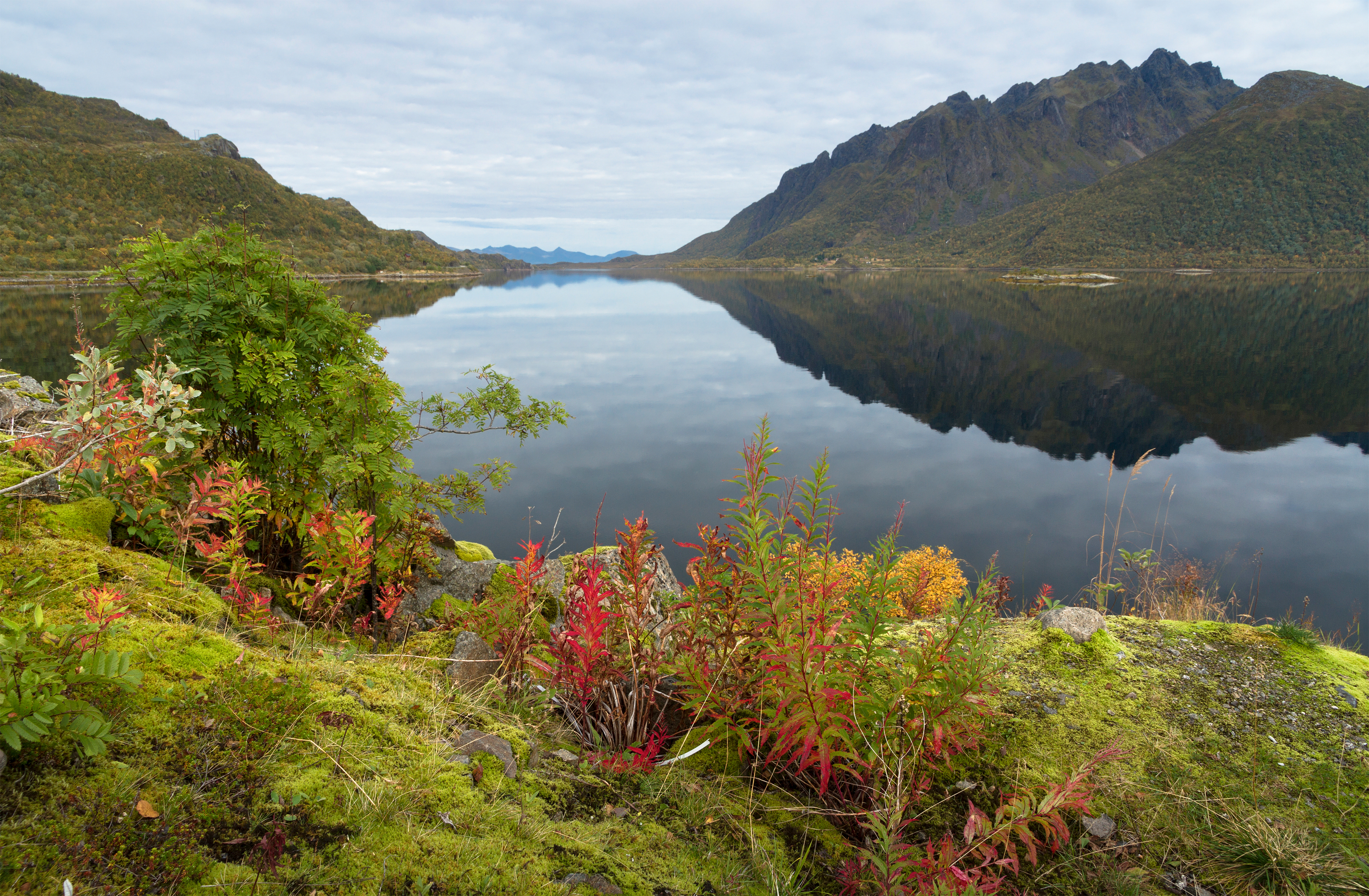 A view to Sløverfjorden towards northeast in Hadsel municipality, Austvågøya island, Lofoten, Norway in 2015 September.